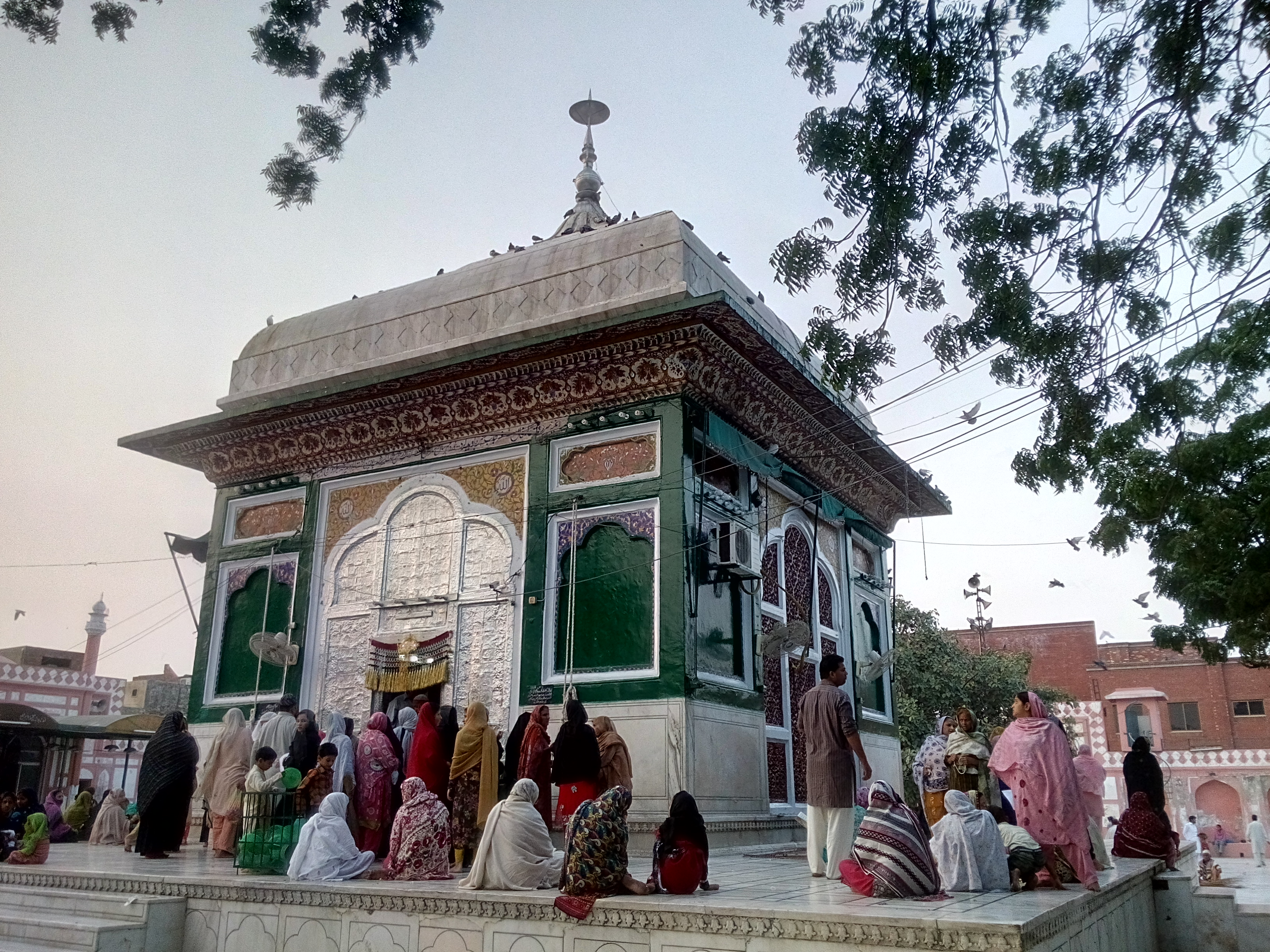 A view of the Mian Mir shrine in Lahore